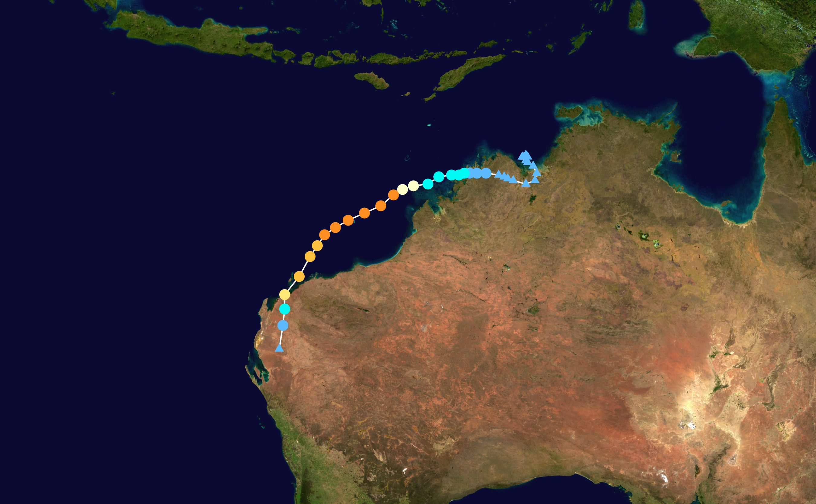 Cyclone Glenda (2006) track. Uses the color scheme from the Saffir-Simpson Hurricane Scale.